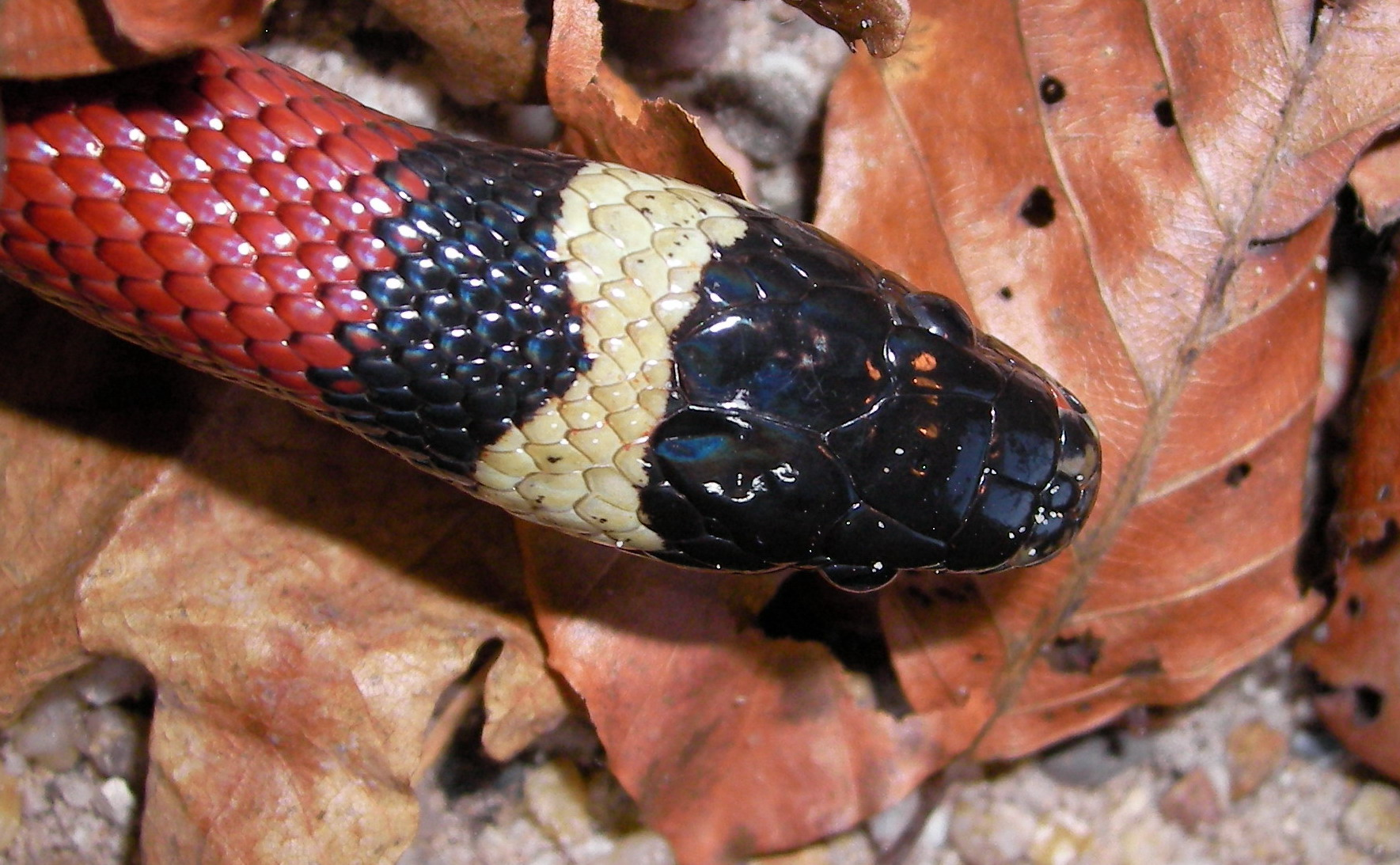 Sinaloan milk snake (Lampropeltis triangulum sinaloae)